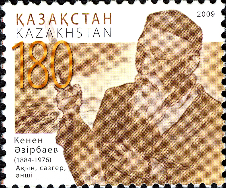 Kazakhstan postage stamp dedicated to Kenen Azerbayev